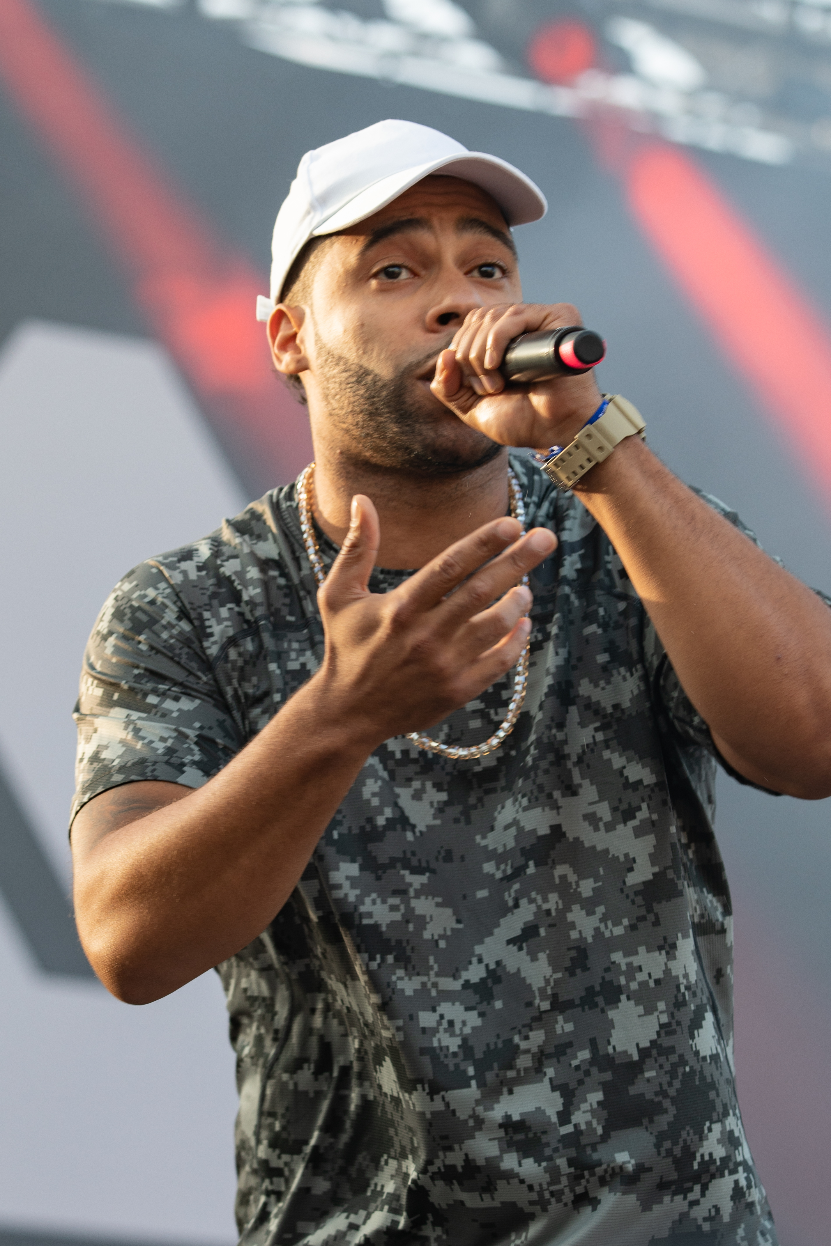 Megaloh at Fritz Deutschpoeten 2018, Berlin IFA Sommergarten